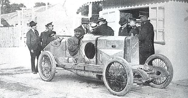 Hispano-Suiza "La Sardina" racing car with supercharger; 1913